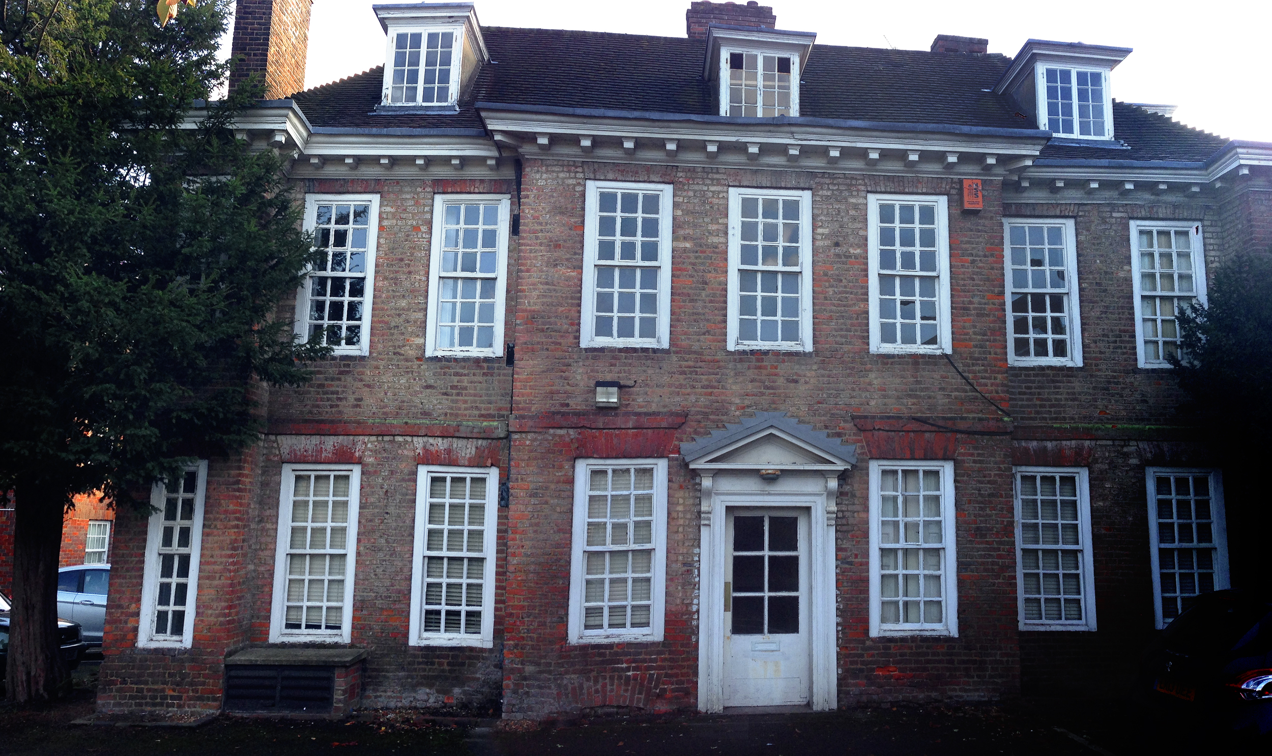 Little Cassiobury, Hempstead Road, Watford, WD17 3EY is listed by Historic England as grade II* "at risk". Built in the late 17th century it is the former Dower House to the old Cassiobury Estate, Watford, UK. The 1938 Country Life article showing when it was a family home can be seen on the Little Cassiobury CIC website. It was bought by Hertfordshire County Council under a compulsory purchase order at the end of the 1930s. They built the old Watford College in its grounds. The County Council used Little Cassiobury for offices for the rest of the 20th century. It has remained unused since they vacated it around 10 years ago. The Little Cassiobury CIC are working towards leasing the building to repair, and preserve it for future generations by using it as a community heritage and arts centre.